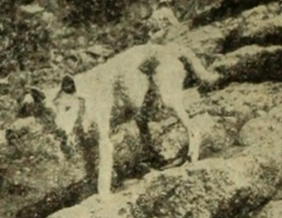 $10,000 "Split Rock" wolf, caught in 1920 after allegedly 50 heads of cattle annually